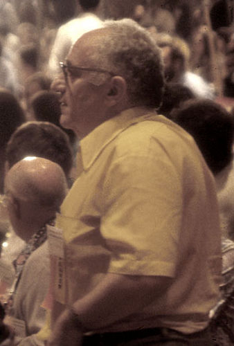 Murray Rothbard at the Libertarian Presidential Convention in New York City, 1983